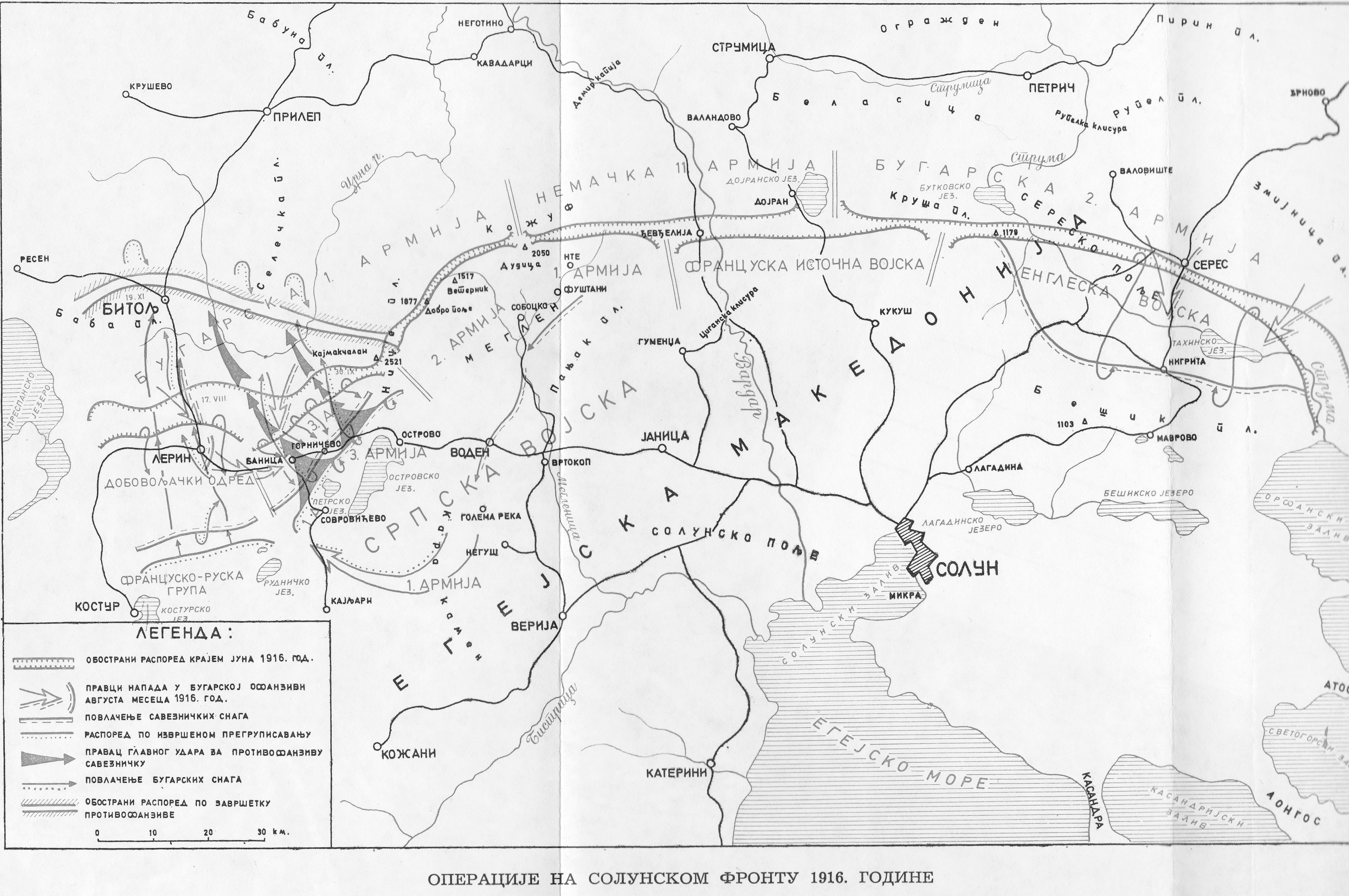 Macedonian front, operations in 1916